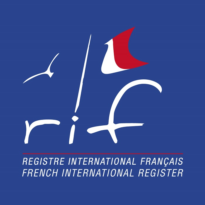 Logo of the French International Register, French shipping register.